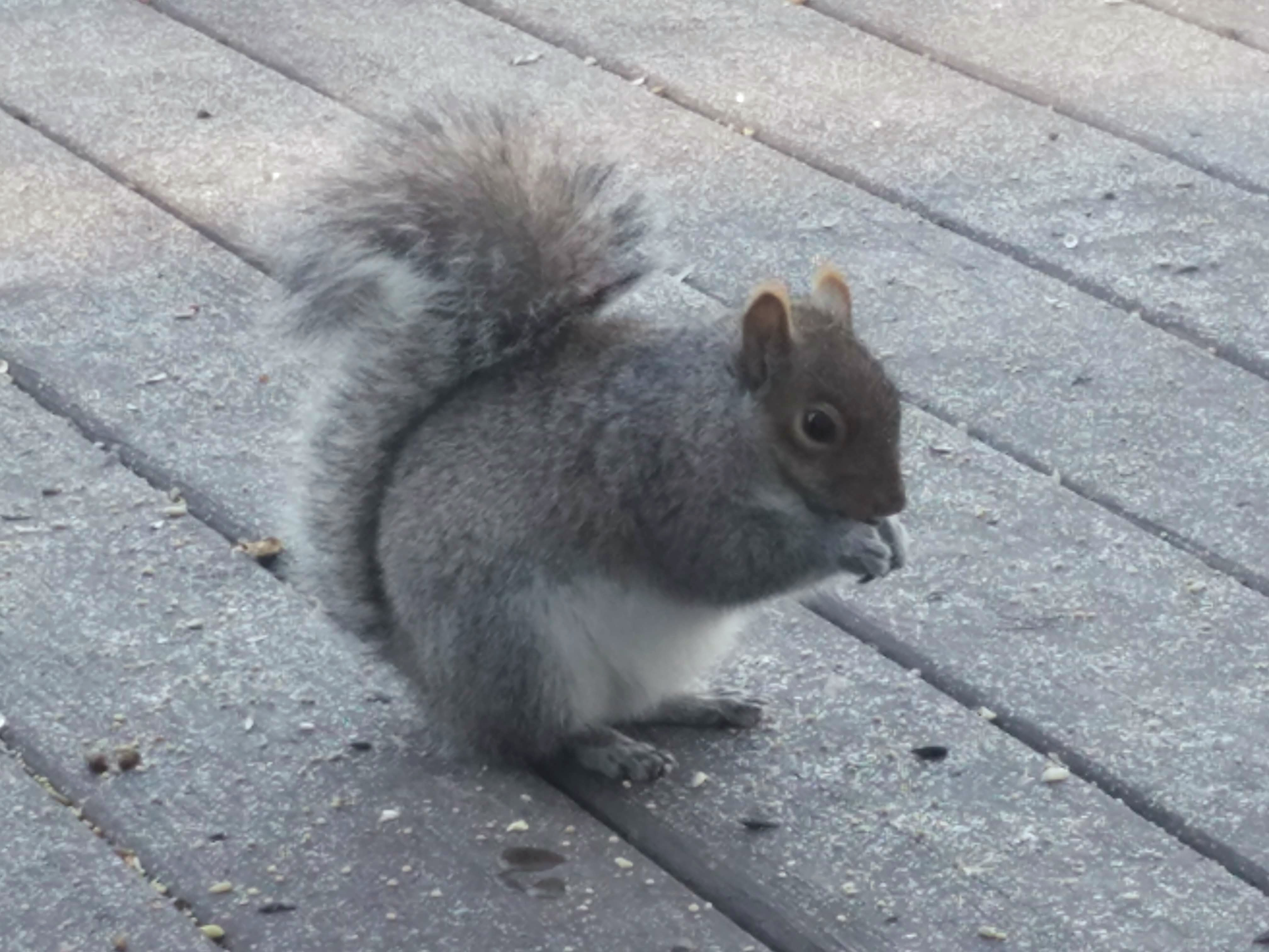 This is a grey squirrel (aka gray squirrel) enjoying a small snack on my deck. It has been very cold for months, and he has a thick coat and a layer of fat to protect him from the cold.